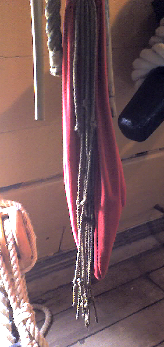 Cat o'nine tails, presumably a replica, on display on HMS Victory at Portsmouth Historic Dockyard, Hampshire, UK. Taken by me Feb 07. The Land 19:09, 18 February 2007 (UTC)